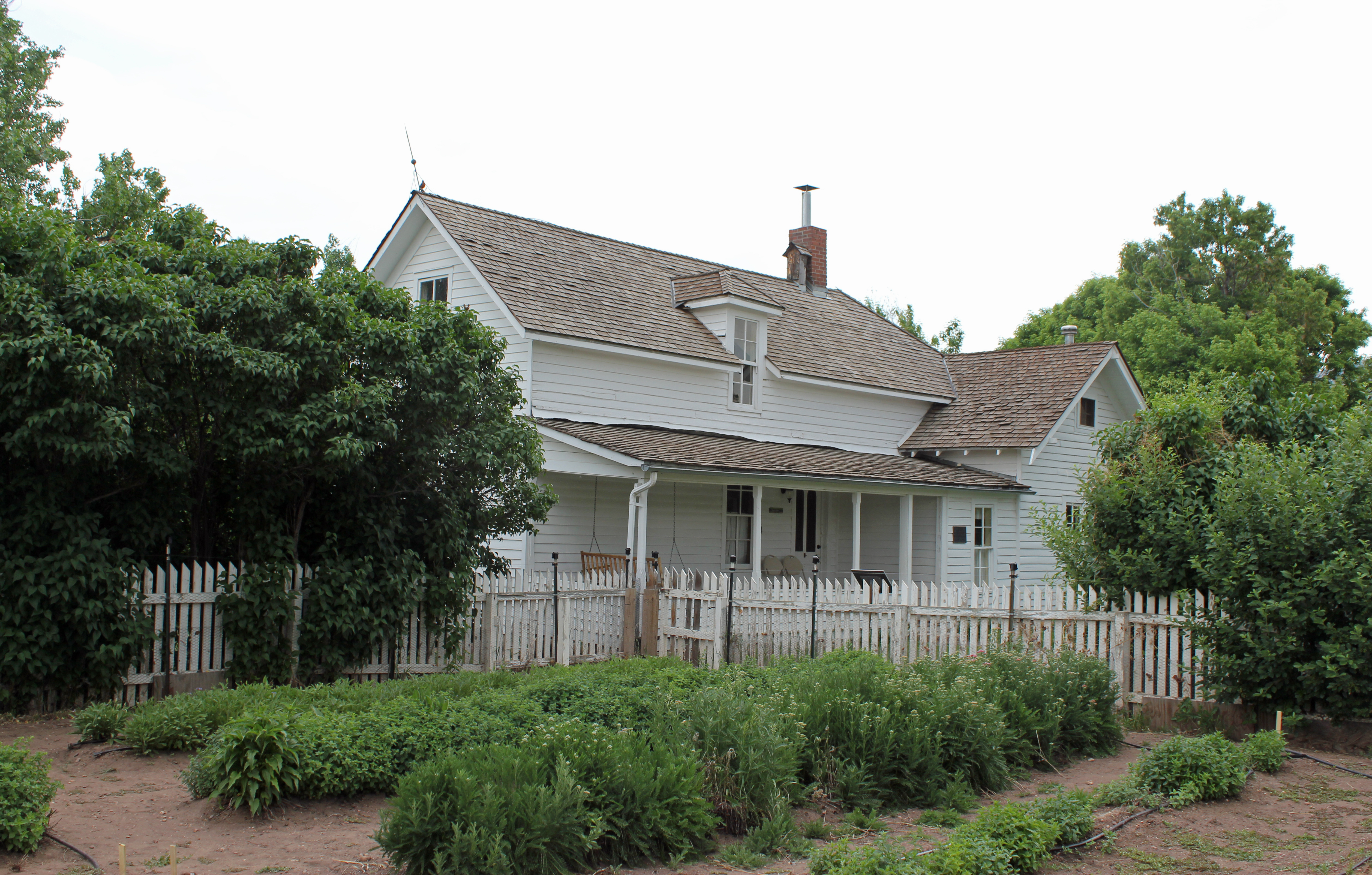 The Hildebrand Ranch, located on the grounds of the Denver Botanic Gardens at Chatfield at 8500 West Deer Creek Canyon Road near Littleton, Colorado. The property is listed on the National Register of Historic Places. Shown here is the ranch house.